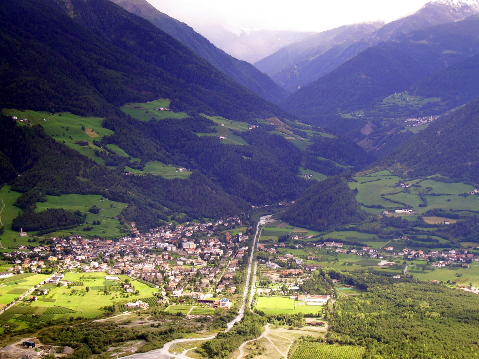 Center of Prad am Stilfser Joch (South Tyrol)